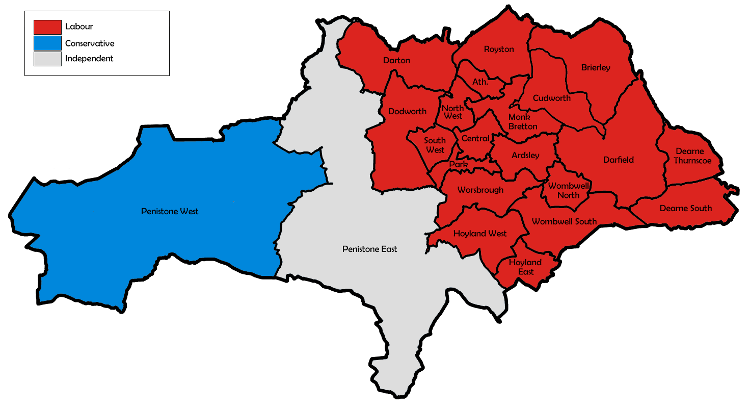 Ward map of Barnsley council with political colouring for the 1996 election.